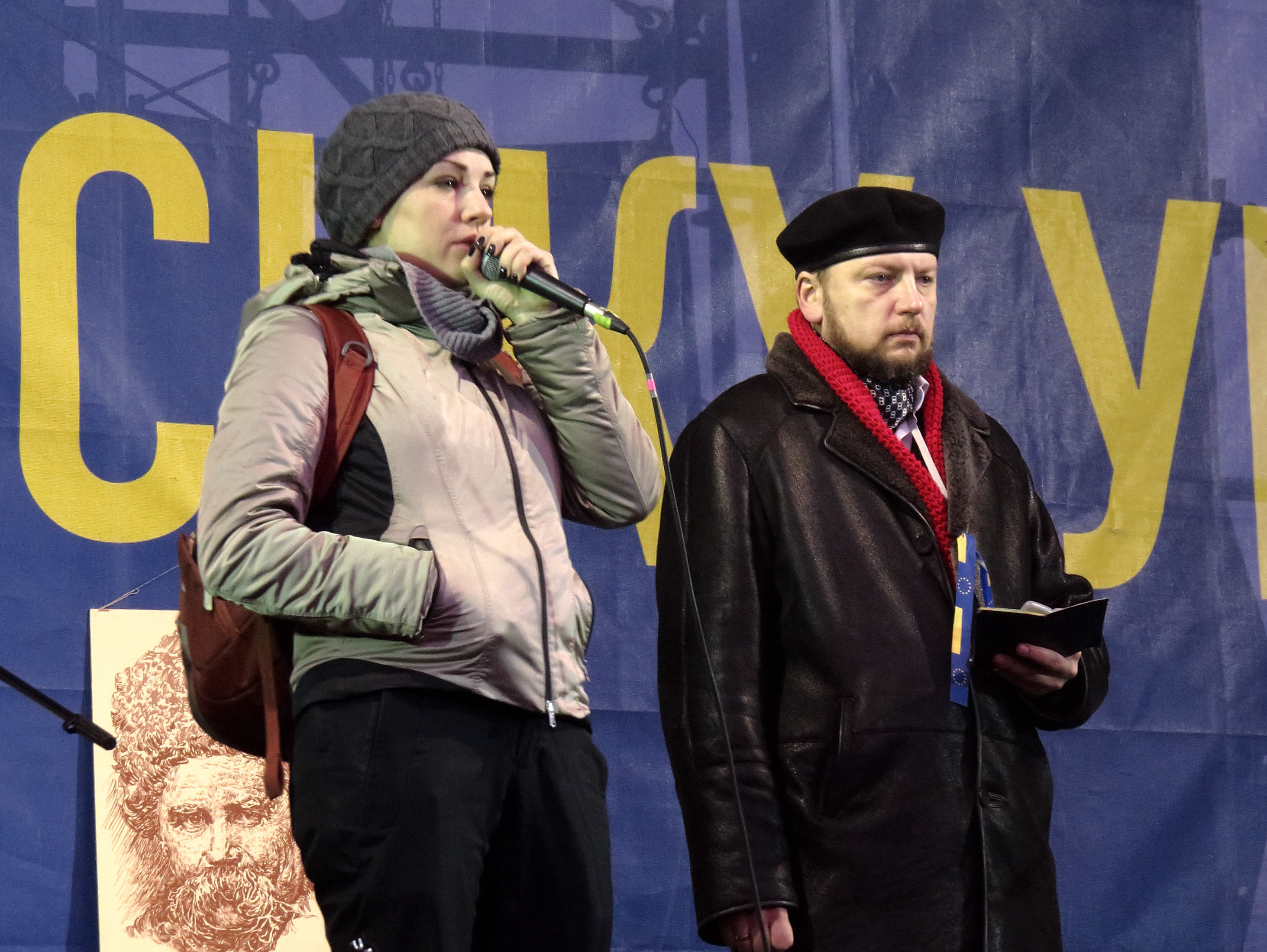 Lesya Orobets (left) at the Euromaidan in Kyiv